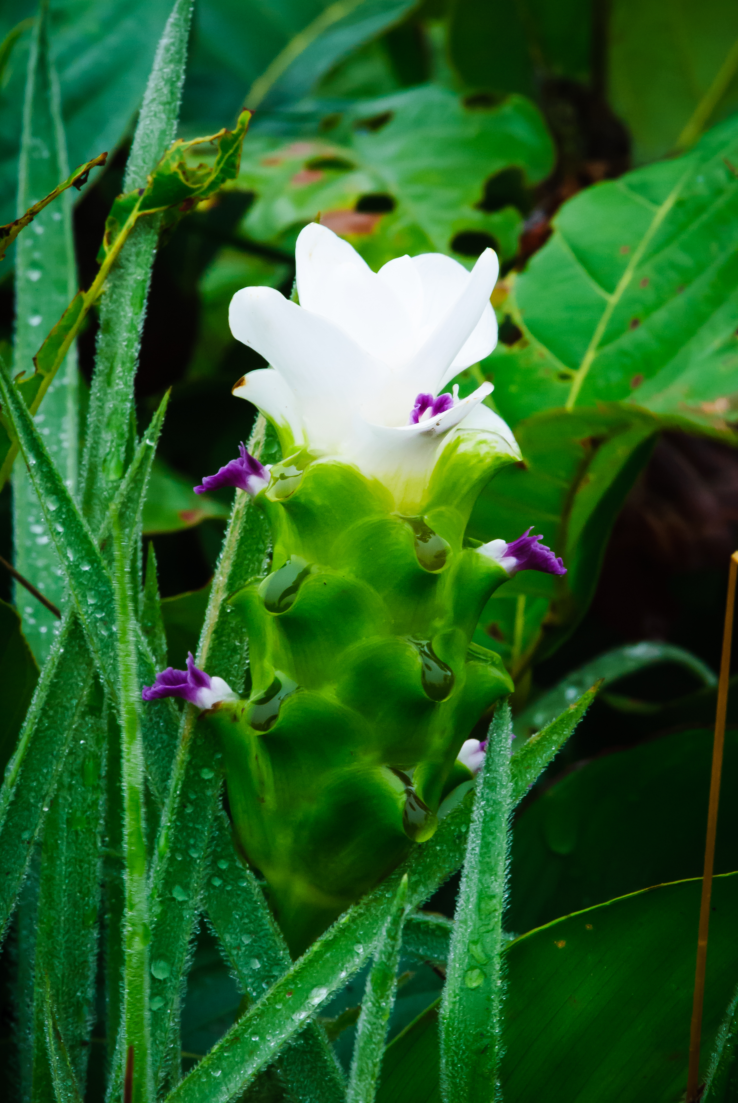 White Siam Tulip (Curcuma parviflora)